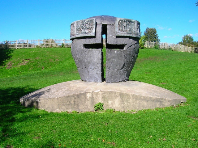 Battle of Lewes Memorial Presented to the town in 1964 on the 700th anniversary of the battle and placed in the grounds of the former priory.